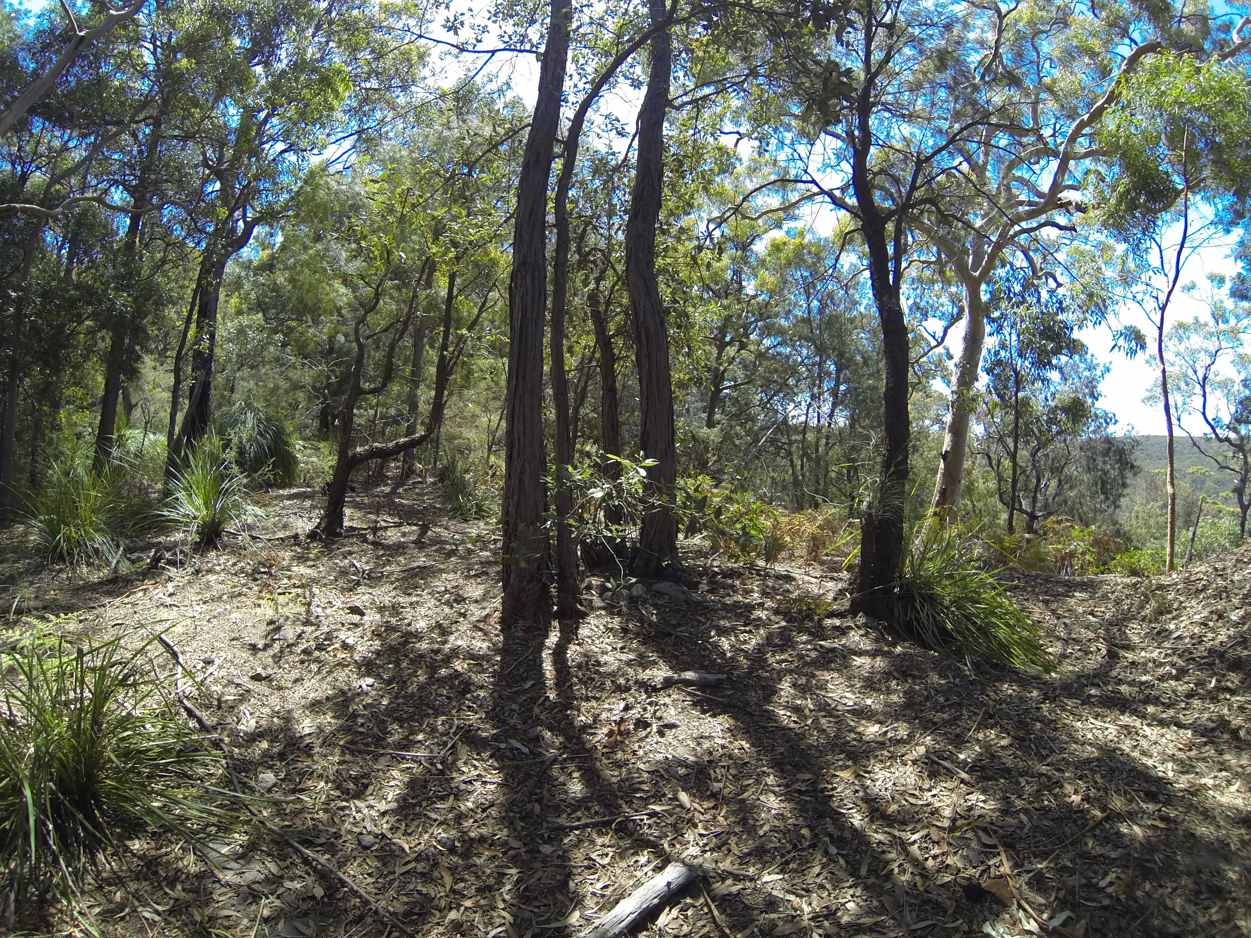 Brisbane Waters National Park